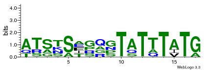 A sequence logo constructed from the 13-nucleotide repeats present in RiAFP (Rhagium inquisitor antifreeze protein) found using RADAR.